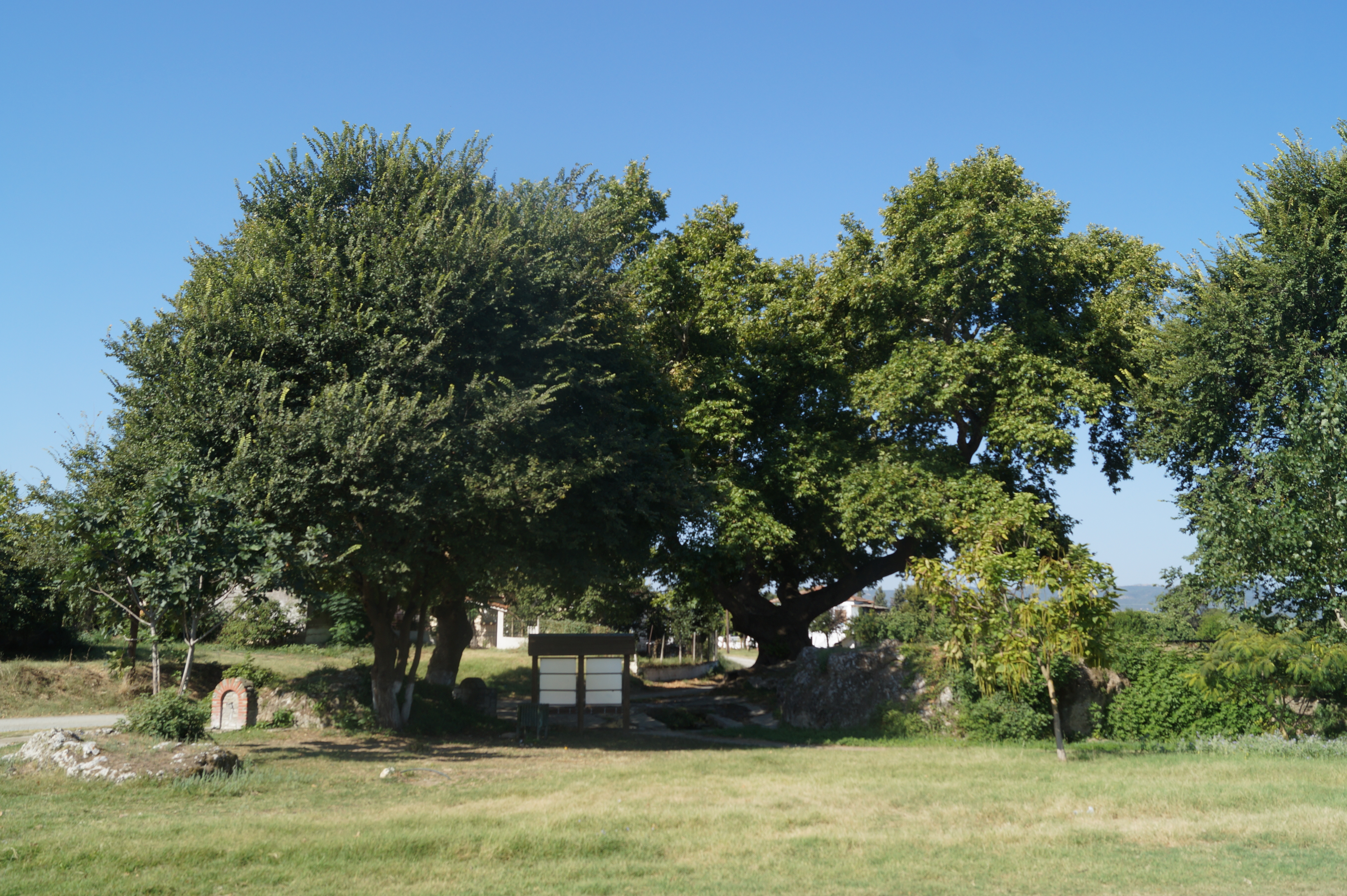 Apollonia, Makedonia, Greece: Perennial plane tree above the rock stand of Paul the Apostle.